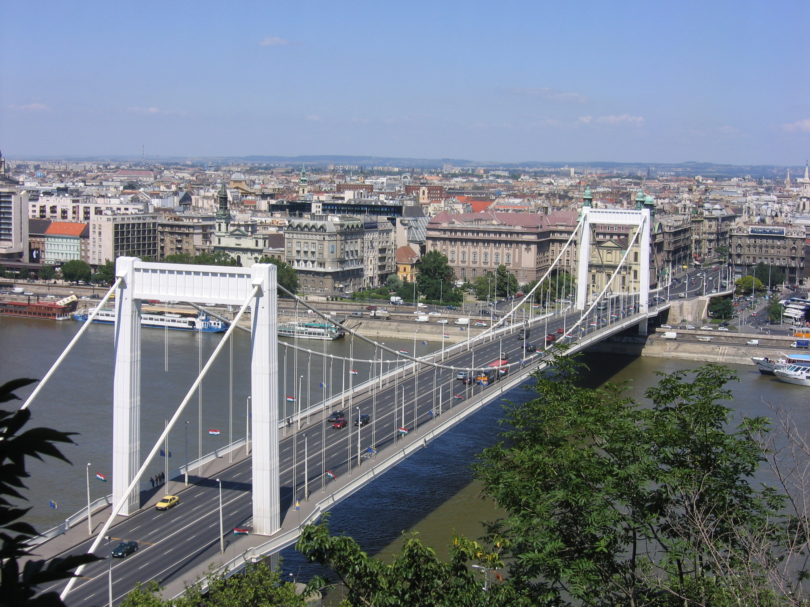 View on Budapest